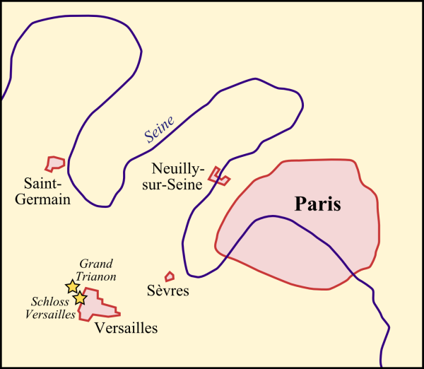 Map of the venues of the 1919/1920 Paris Peace Conference (in german)